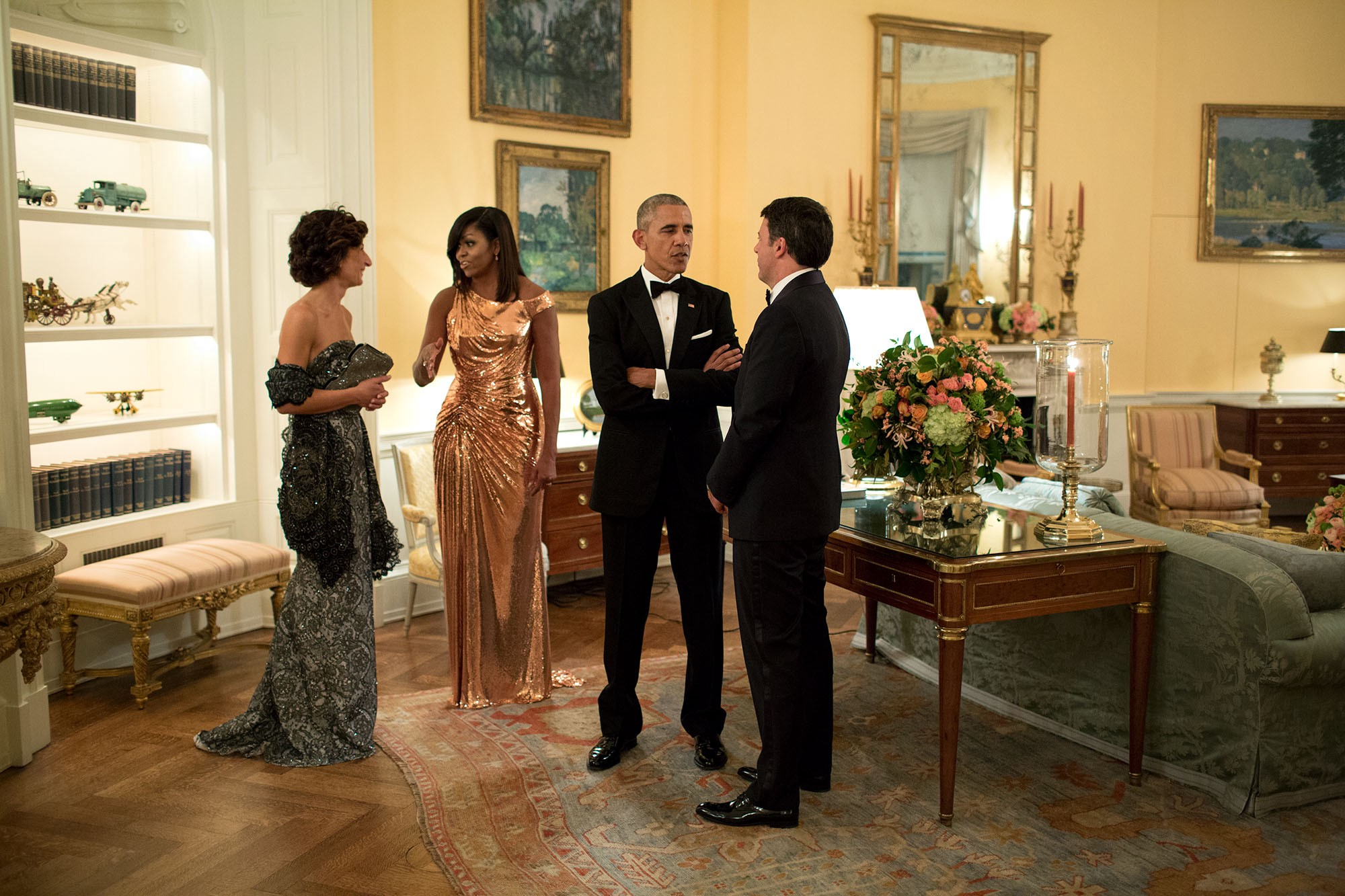 Barack Obama, Matteo Renzi, Michelle Obama and Agnese Landini in October 2016. (Michelle Obama wore a memorable floor length rose-gold chainmail gown designed by Atelier Versace)